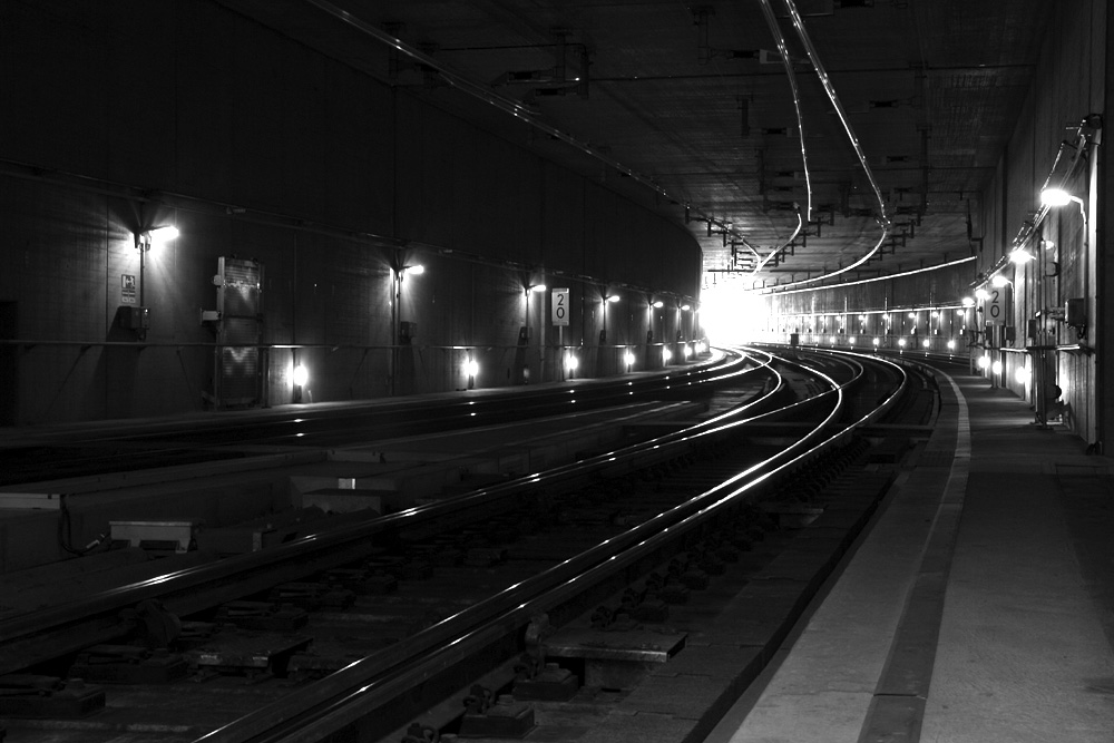 Railway tracks at the end of Tiergarten-Tunnel, as seen from one of the underground platforms at the new Hauptbahnhof (mail railway station) in Berlin